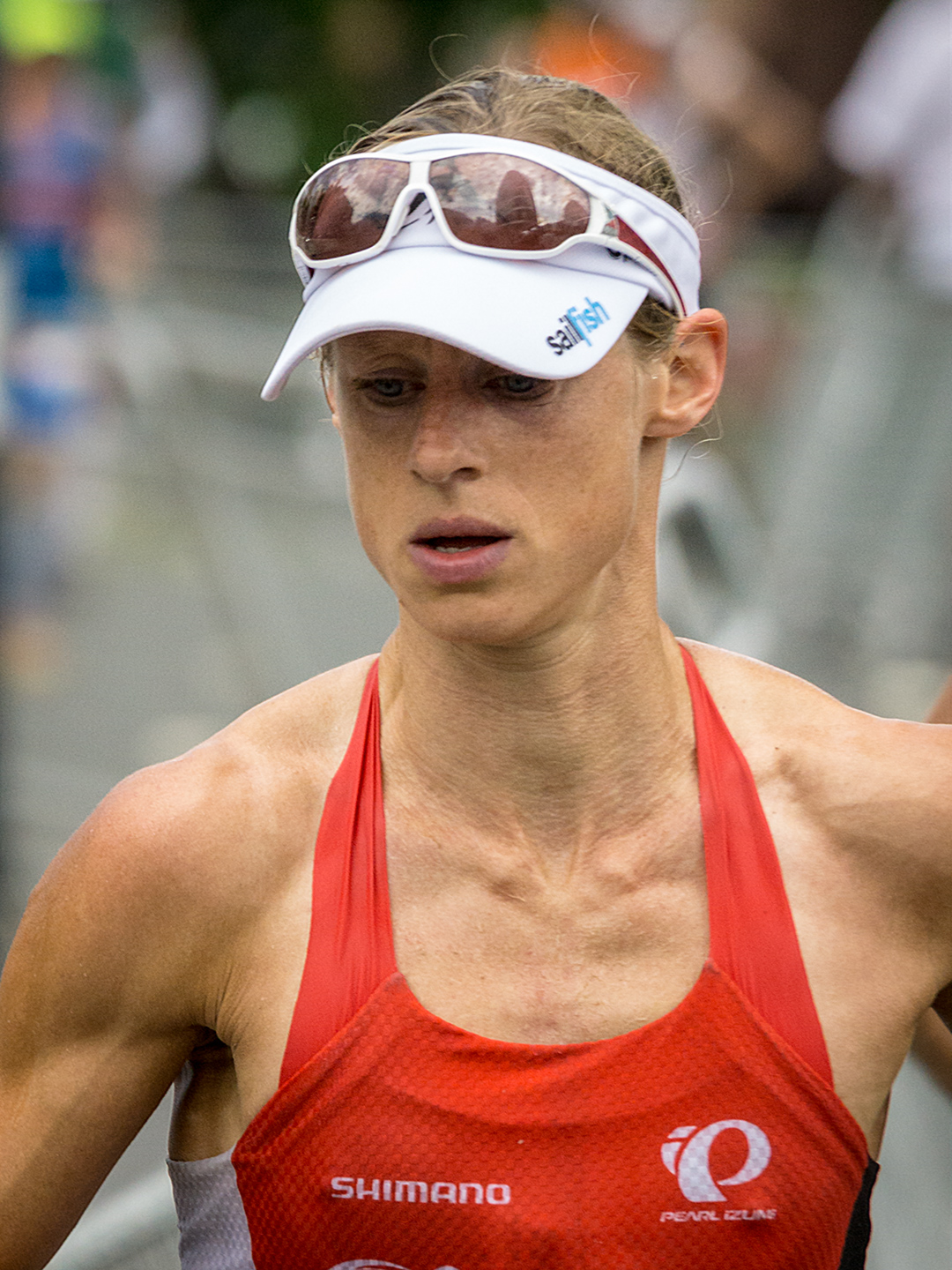 First female Corinne Abraham at the 2014 Ironman European Championship in Frankfurt am Main (Germany).